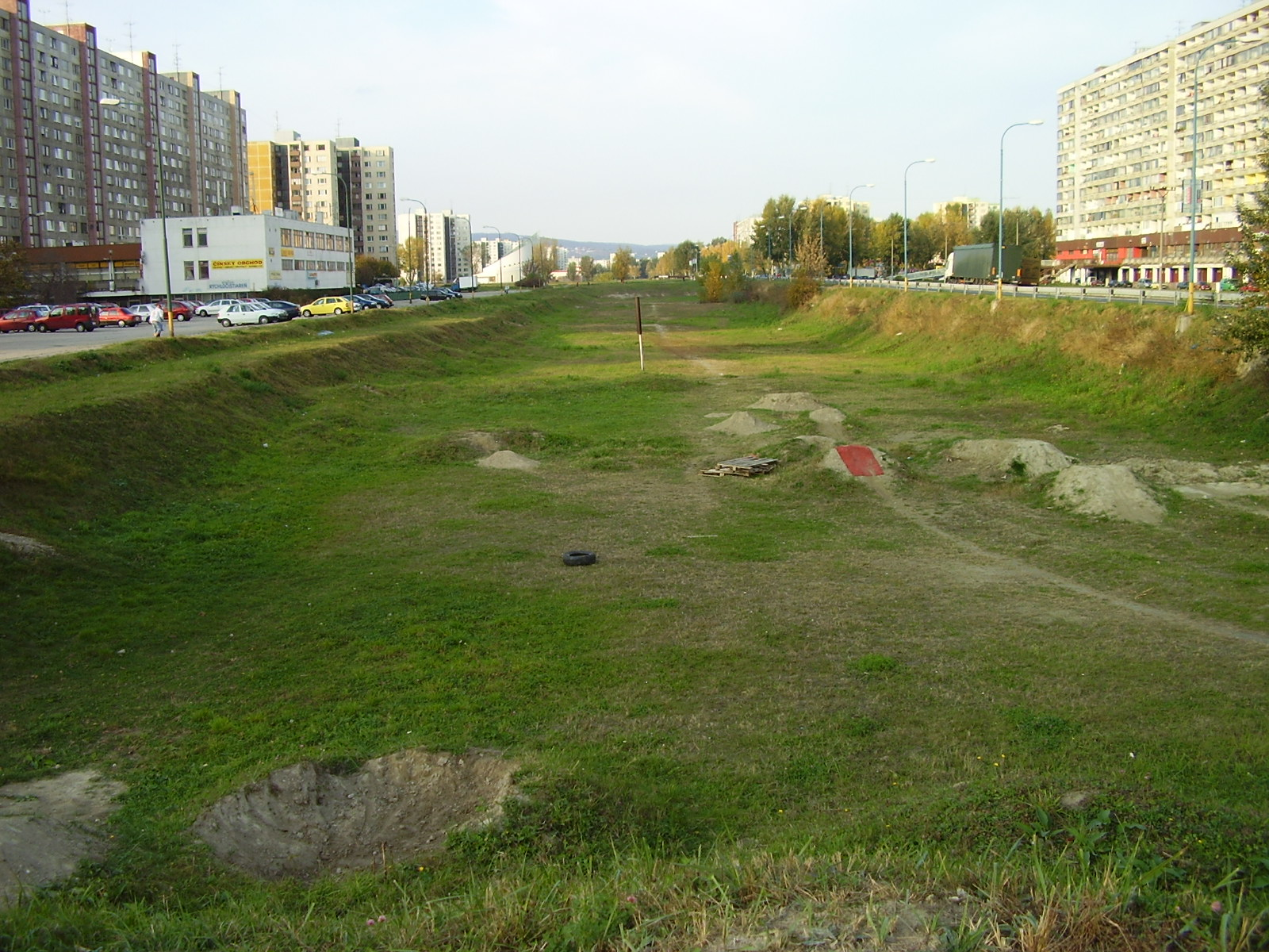 Bratislava, the place of proposed metro